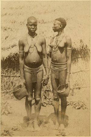 Madi women